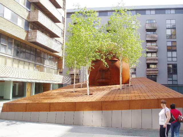 Hitchcock's Head. A statue of Alfred Hitchcock's head at the Gainsborough Studios apartments.